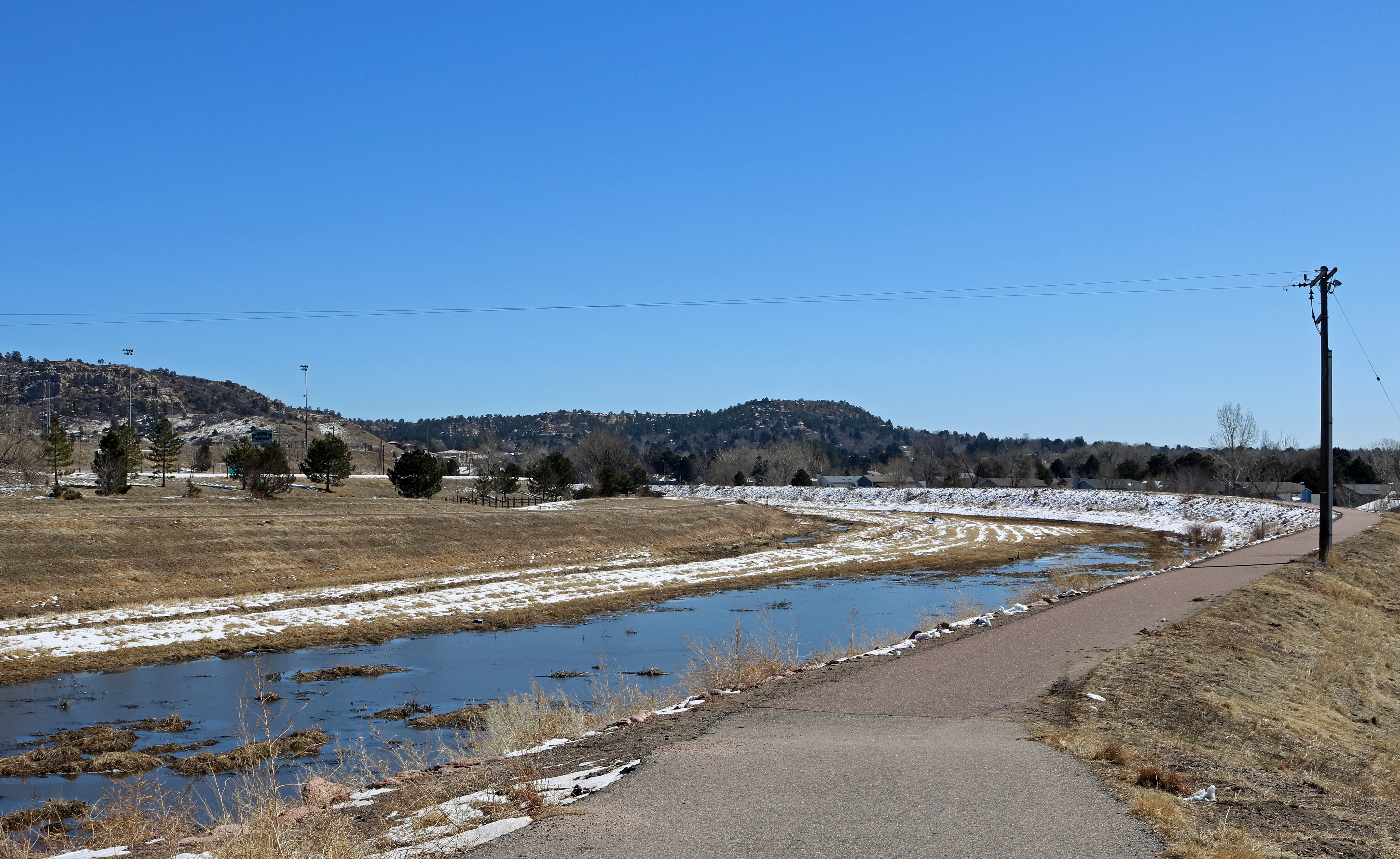 The Templeton Gap Floodway in Colorado Springs, Colordo.